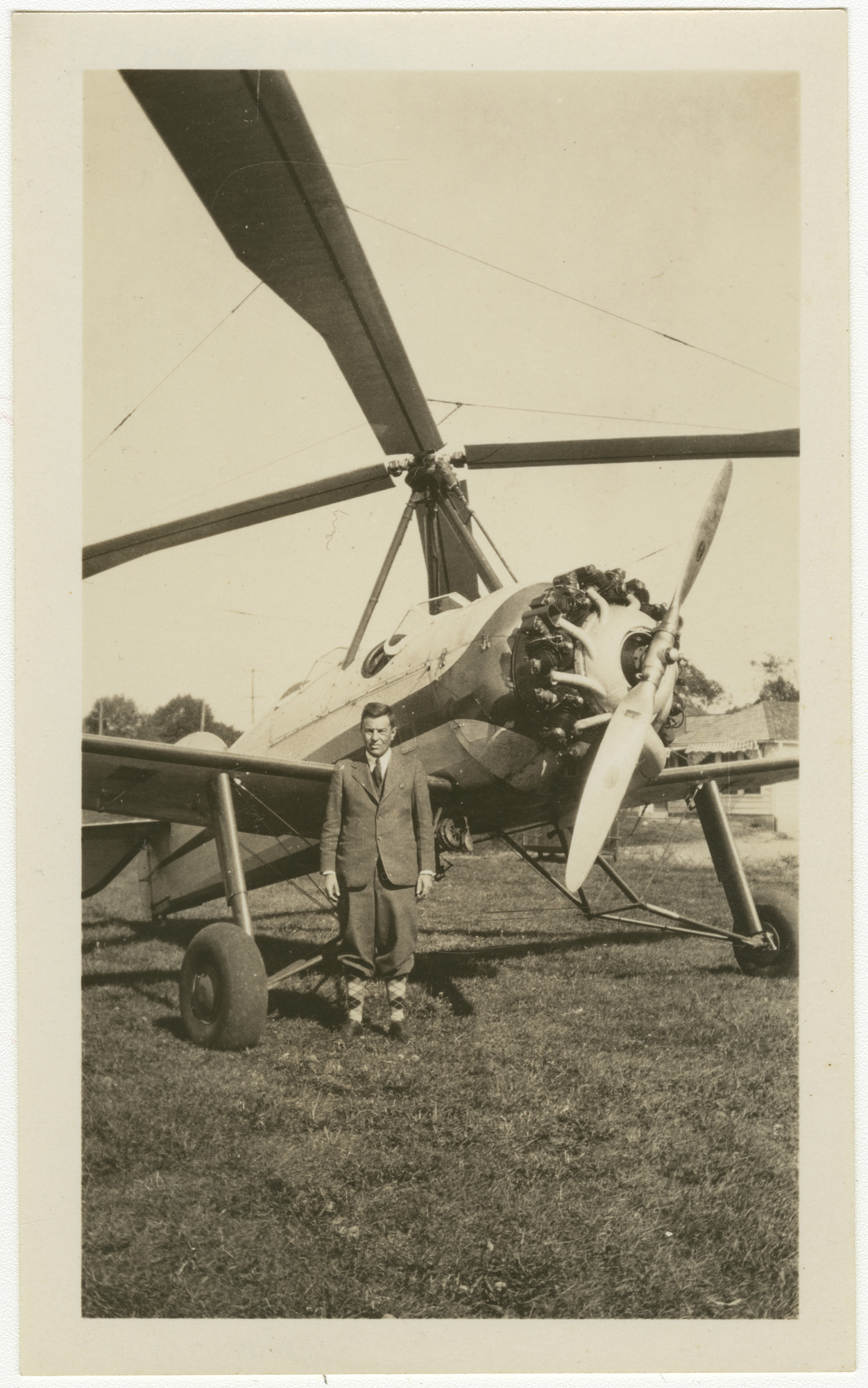 Full-length view of pilot John Matthew Miller III posed standing in front of Pitcairn PCA-2 Autogiro, three-quarter right front view, close in, of autogiro